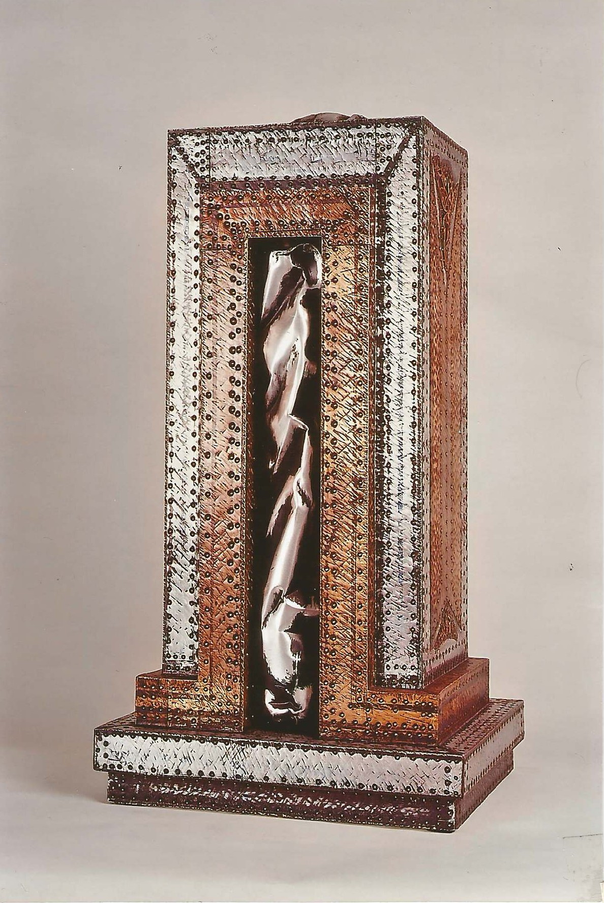 "Sacro a quattordici" Statua di Roberto Tirelli, 2001. Dedicata ai fratelli Cervi-Govoni.